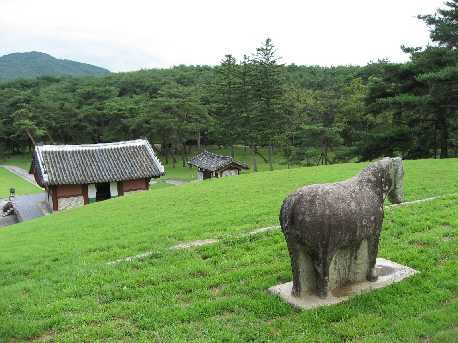 The tomb of King Sejong the Great of Joseon.